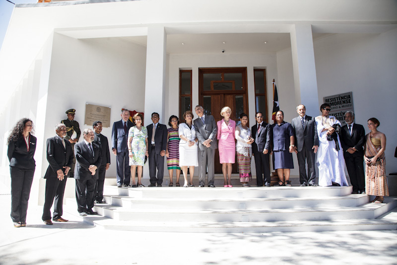 Inauguração AMRT